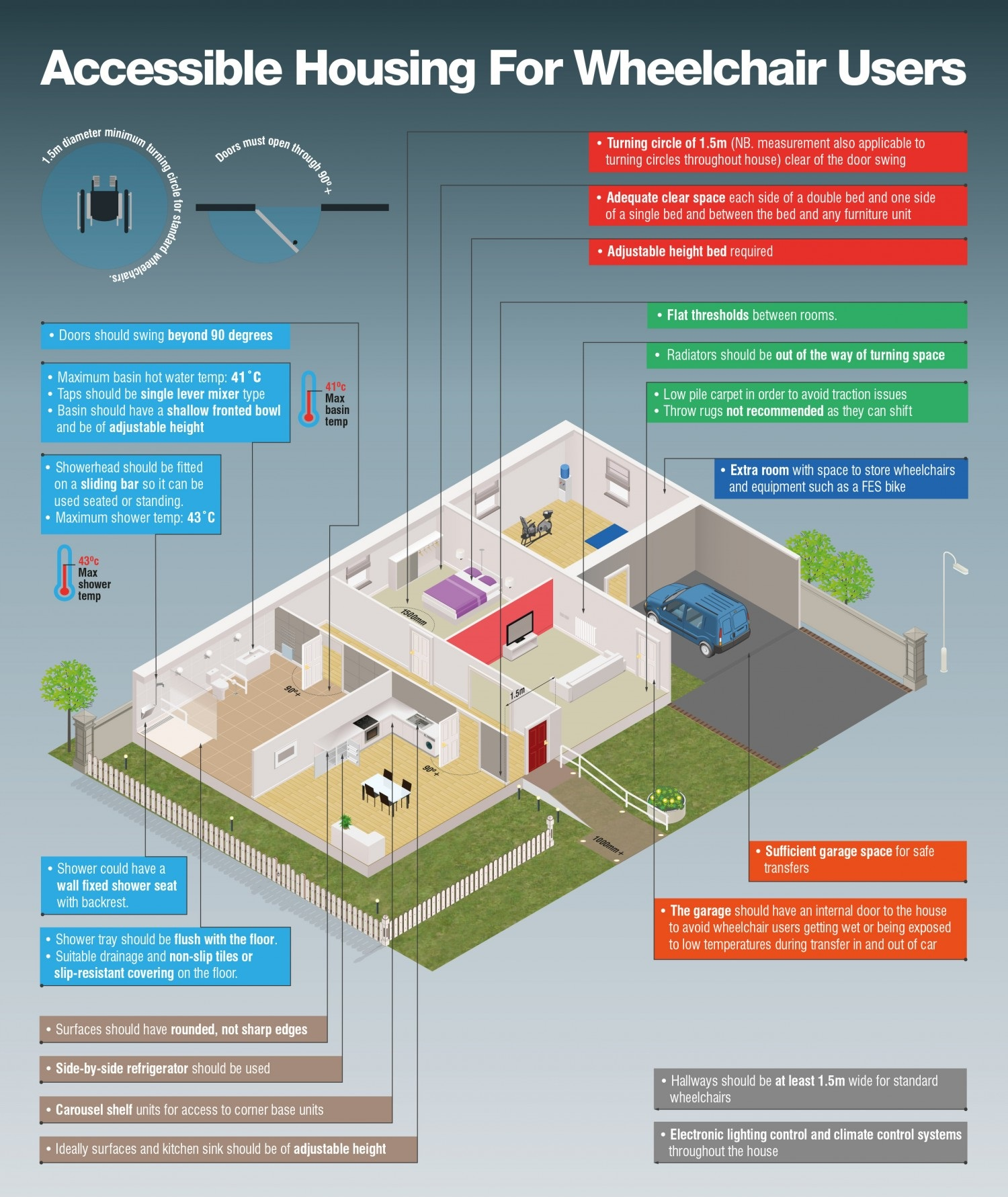 This shows the elements of wheelchair accessible housing